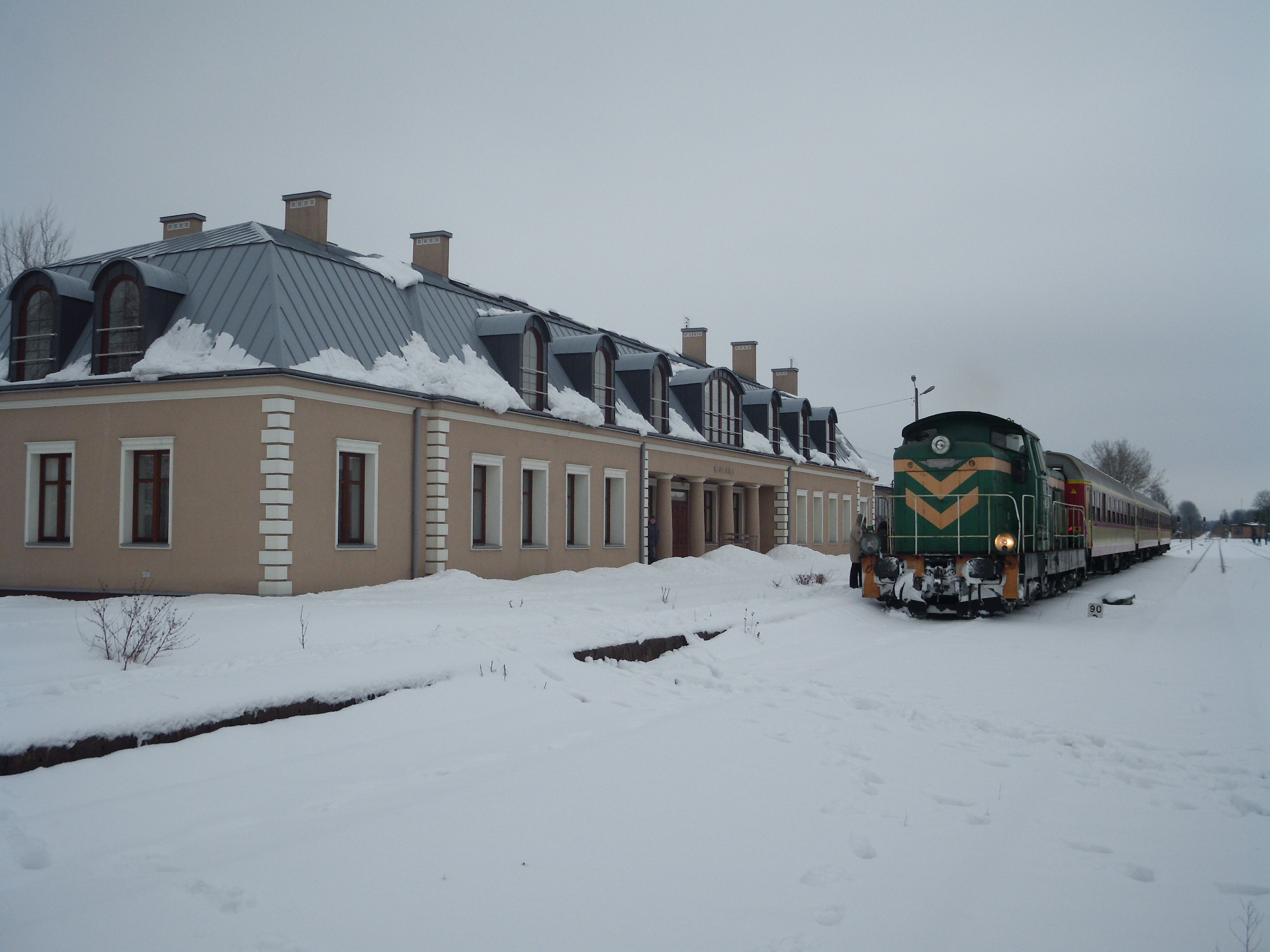 Tourist train headed by SM42 engine at a station in Sokołów Podlaski at the end of a route from Siedlce. This station no longer serves regular passenger trains and the building is used as a municipal library.